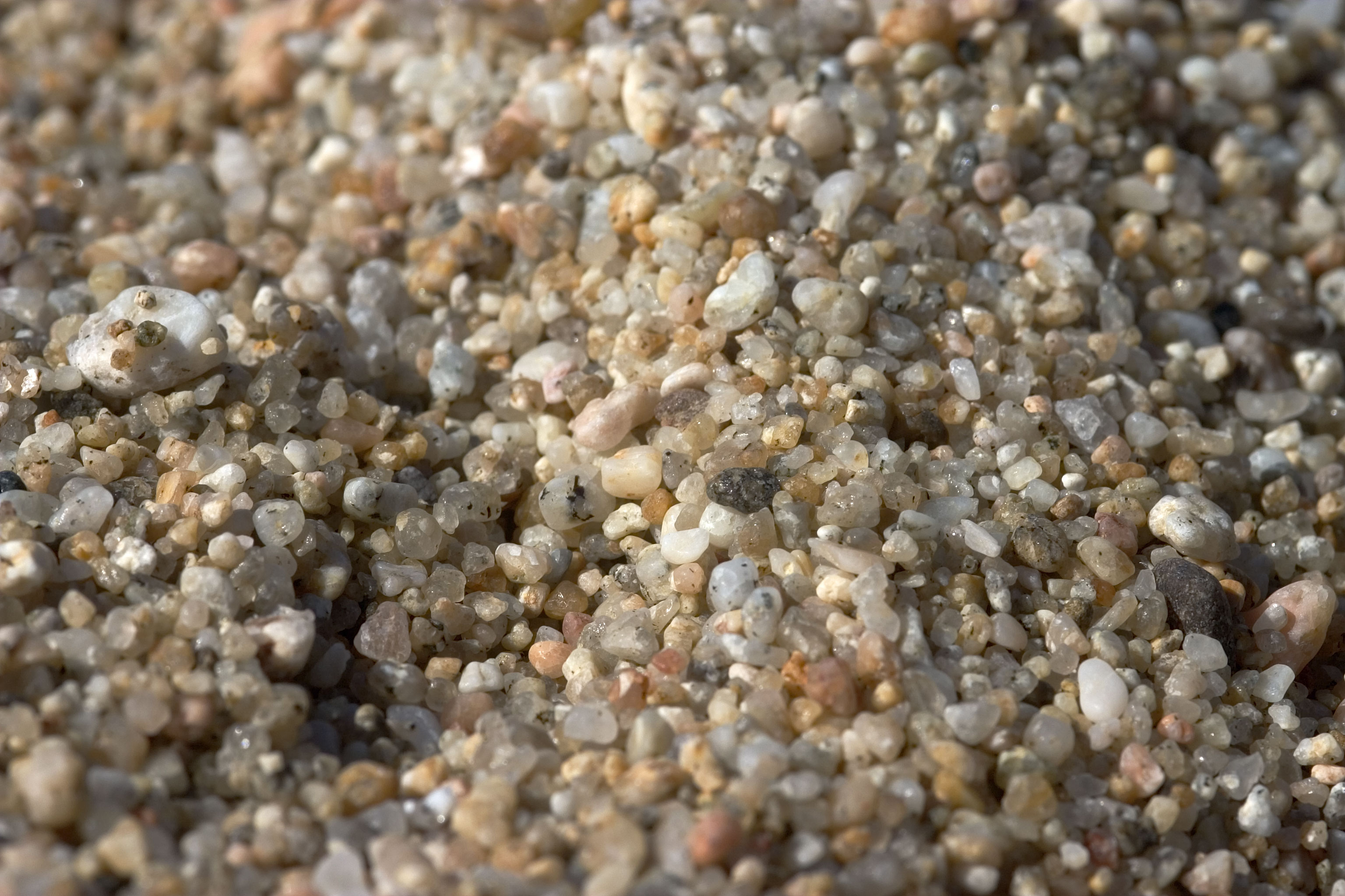 Grains of Sand on a beach. Photo by Sean O'Flaherty aka Seano1